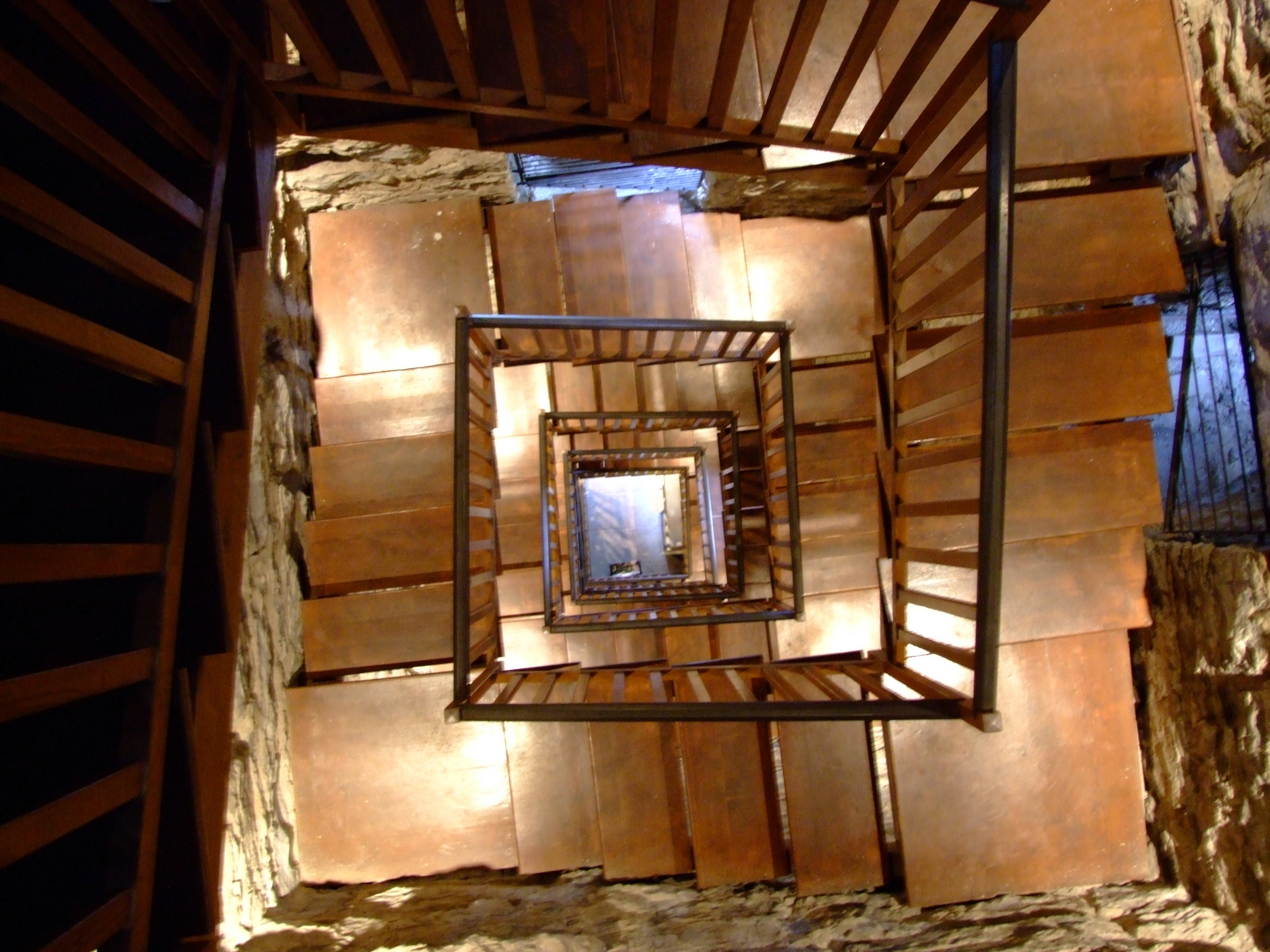 A view down the centre of the clock tower in Riva Del Garda. A little blurry, but I was stretching!